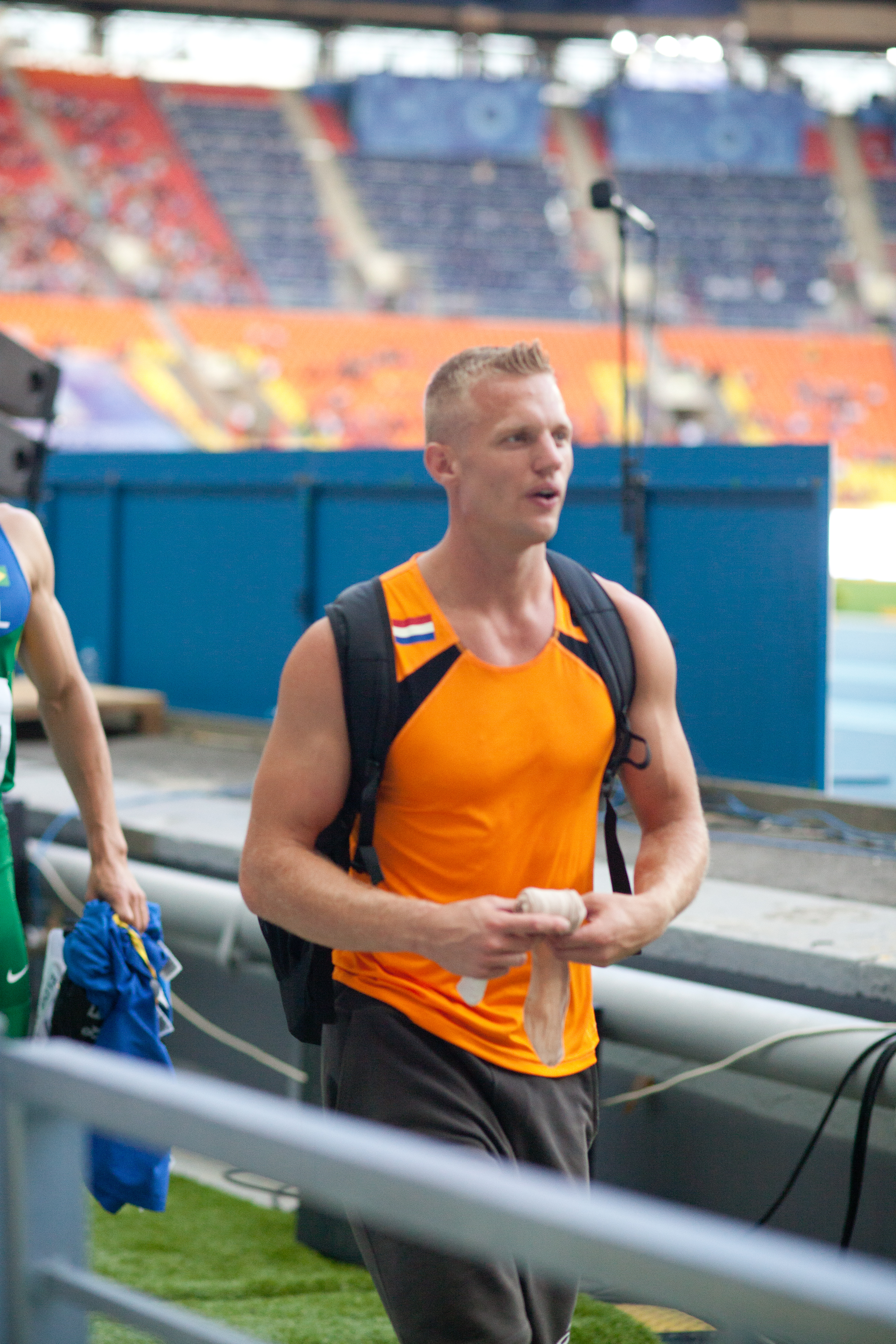 Pelle Rietveld during 2013 World Championships in Athletics in Moscow.